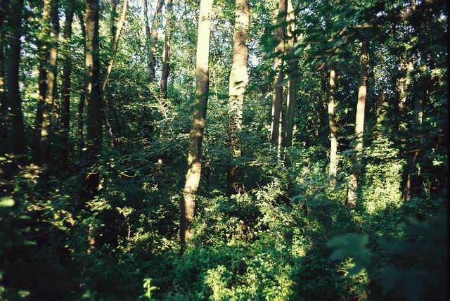 Turkey oak grove in central Serbia